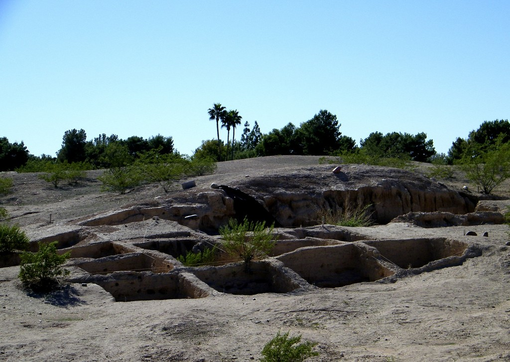 Mesa Grande Hohokam Ruins Arizona